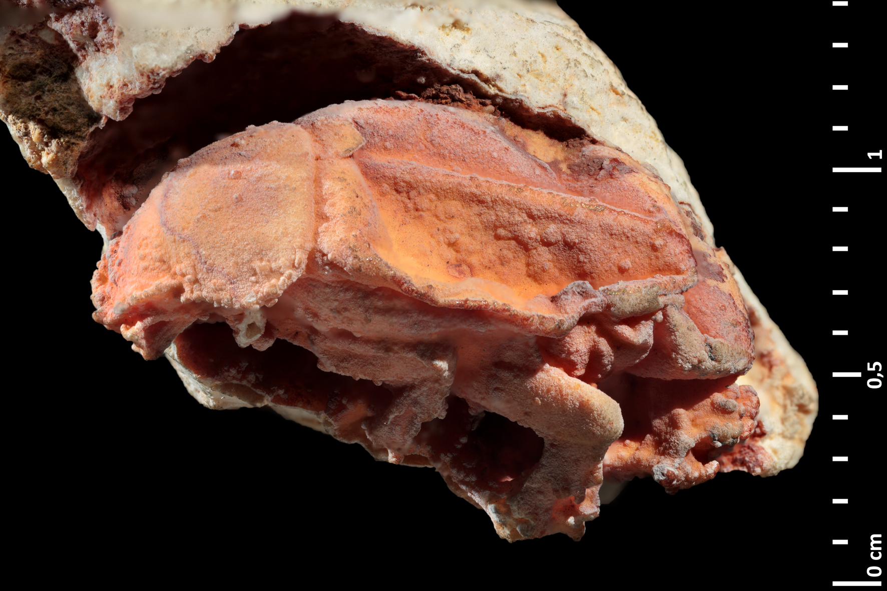 Lateral view of the Anomalites fugitivus holotype specimen preserved with a quartz microcoating in direct lighting. Priabonian, Eocene; Nogent-le-Rotrou, Eure-et-Loir, Centre, France Muséum national d'Histoire naturelle specimen MNHN.F.B68850